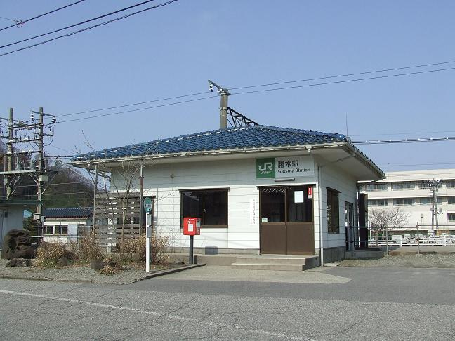 Gatsugi Station building